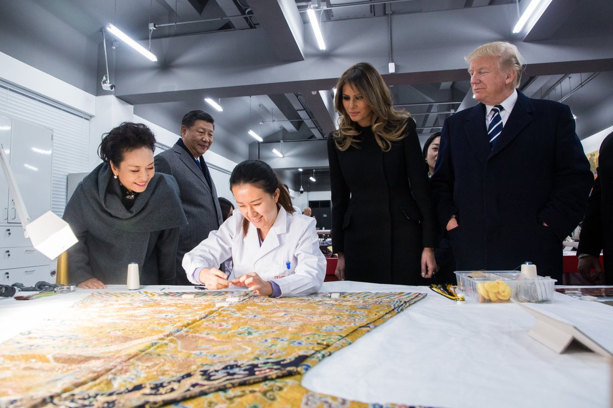 U.S. President Donald Trump and First Lady Melania Trump during a visit to China accompanied by Chinese President Xi Jinping